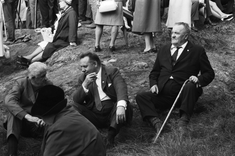 Red Guard veterans at the unveiling ceremony of the 1918 Finnish Civil War national Red monument "Crescendo" in Helsinki.